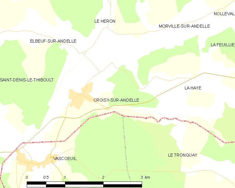 Map of French municipality Croisy-sur-Andelle